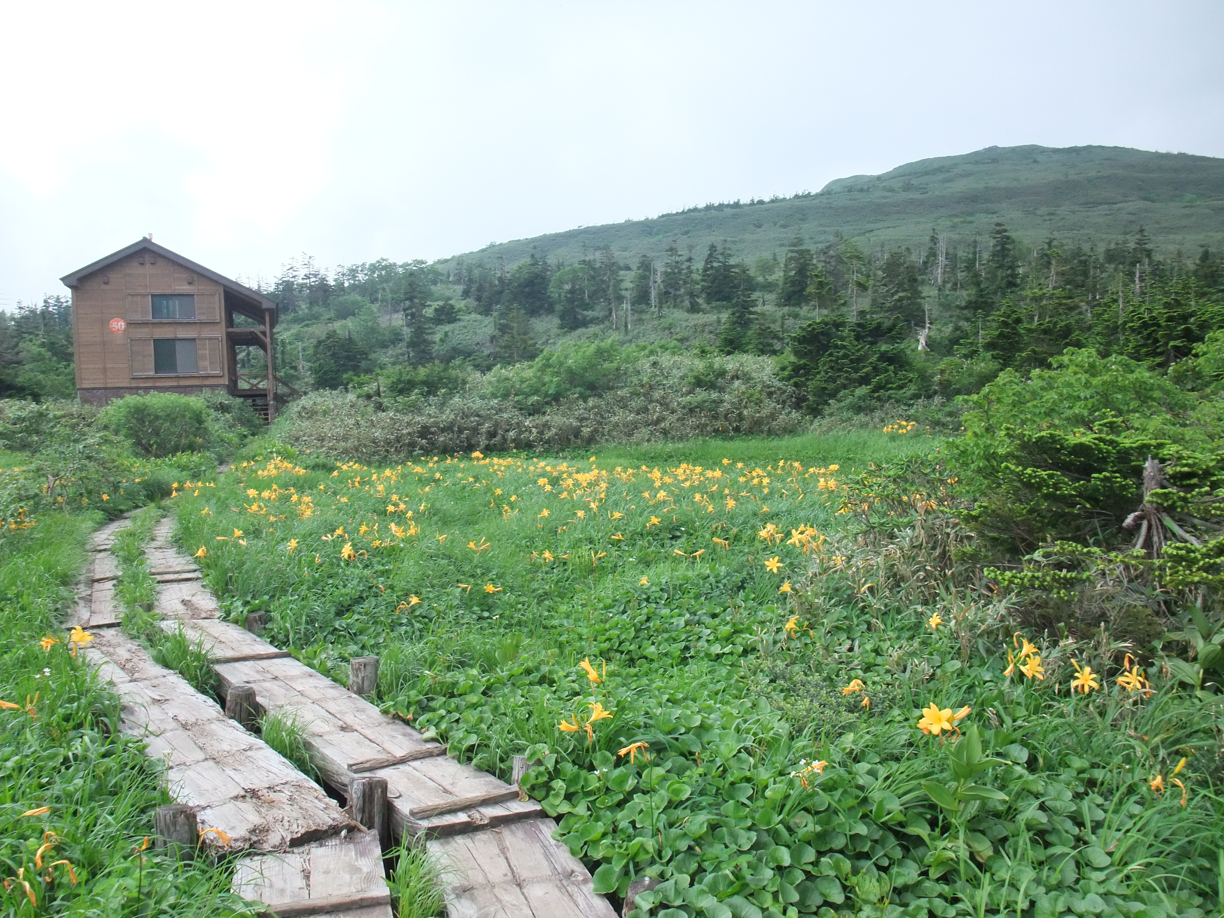 Mitsuishi Sanso ("Mitsuishi mountain hut") and Mount Mitsuishi